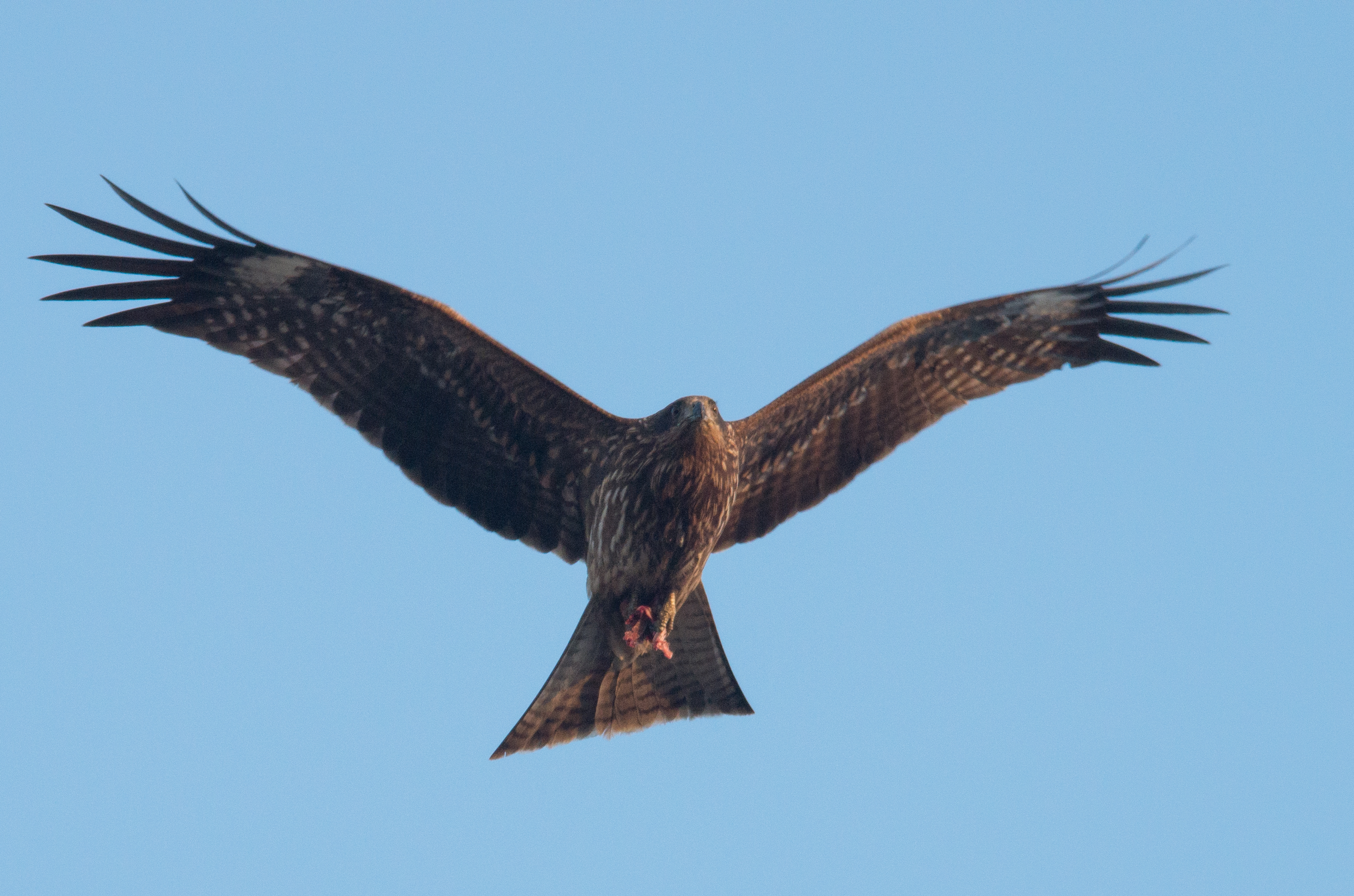 A Black Kite (Milvus migrans) flying in Japan